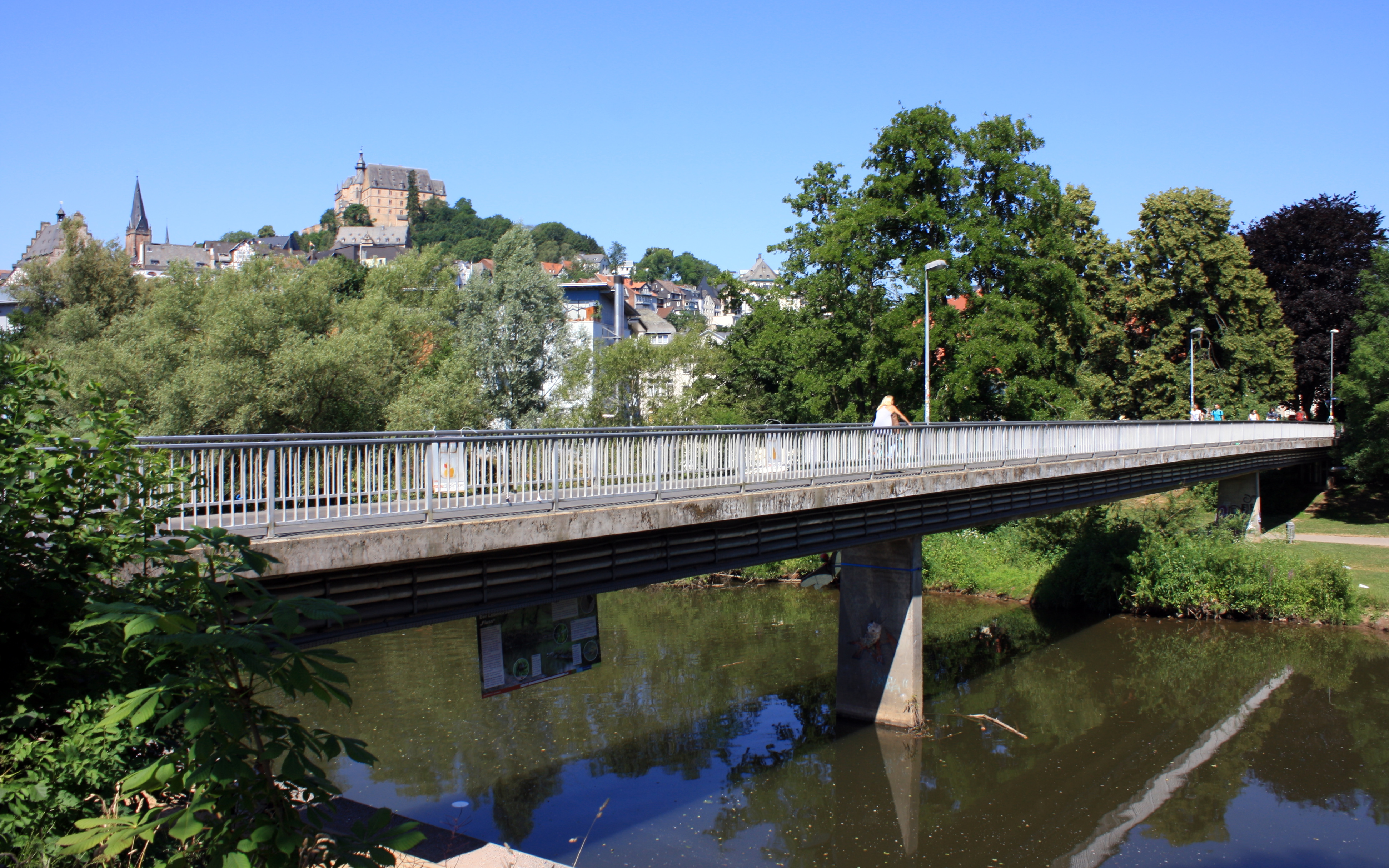 Abendroth Bridge in Marburg